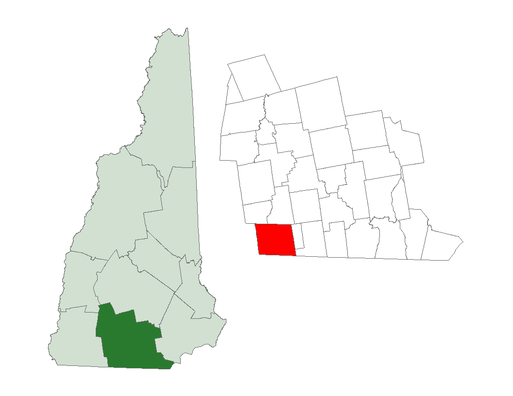 Map showing location of town of New Ipswich (red) in Hillsborough County (dark green).